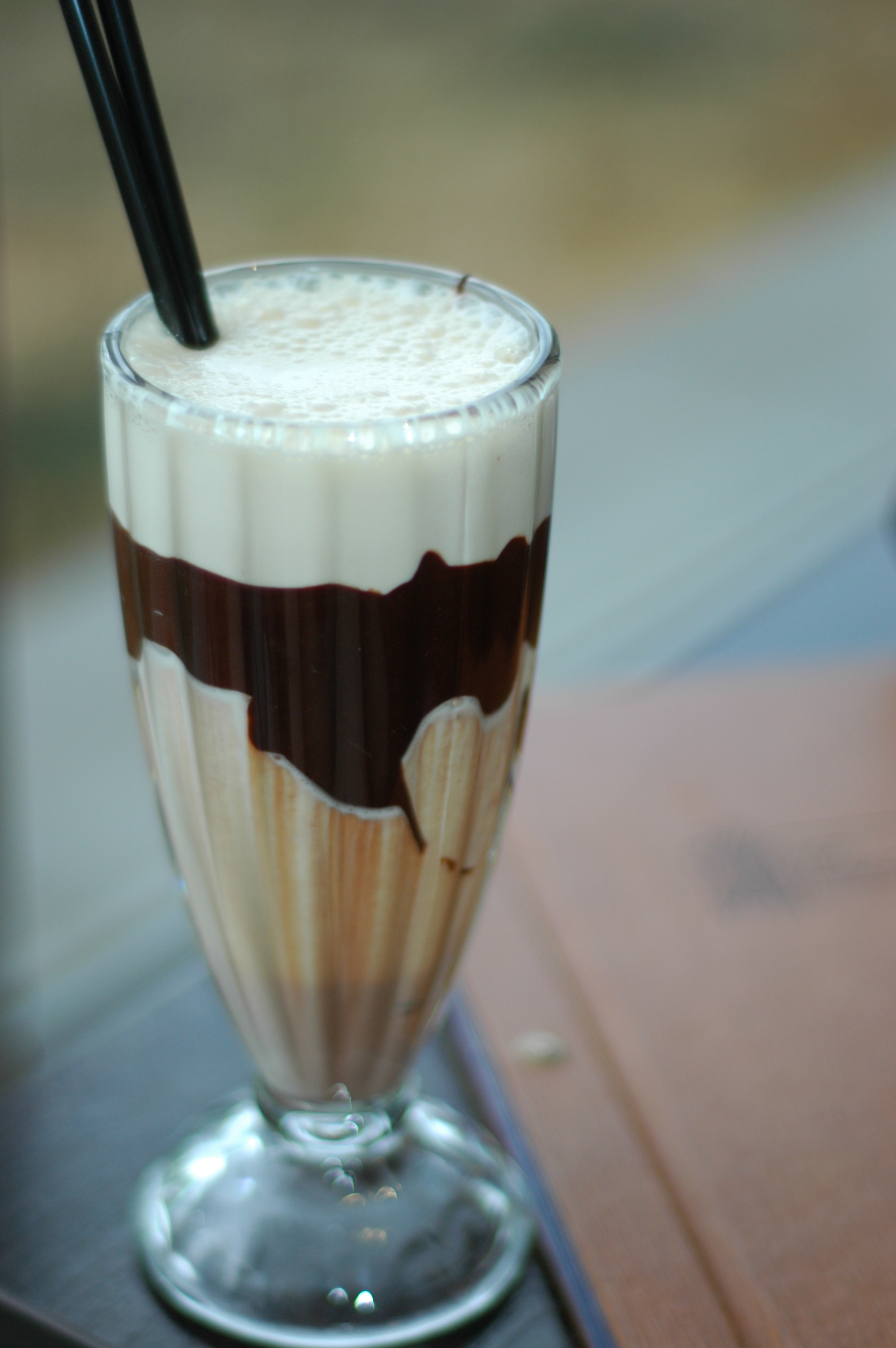 One of the "shakes with a punch" at Hot Chocolate at Docklands. Whiskey, Baileys, Very Vanilla & Bee Keeper ice cream, dark chocolate.